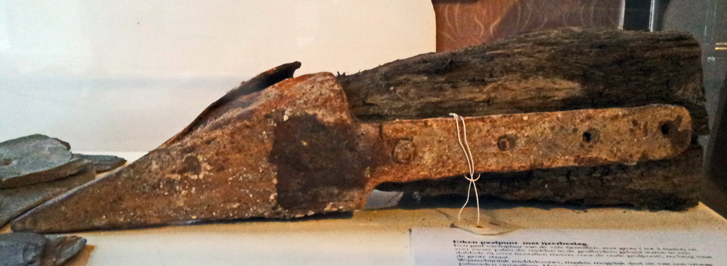 Iron stake point from palisade, before Valkenburg city wall was built, collection Museum Het Land van Valkenburg, Limburg, the Netherlands.